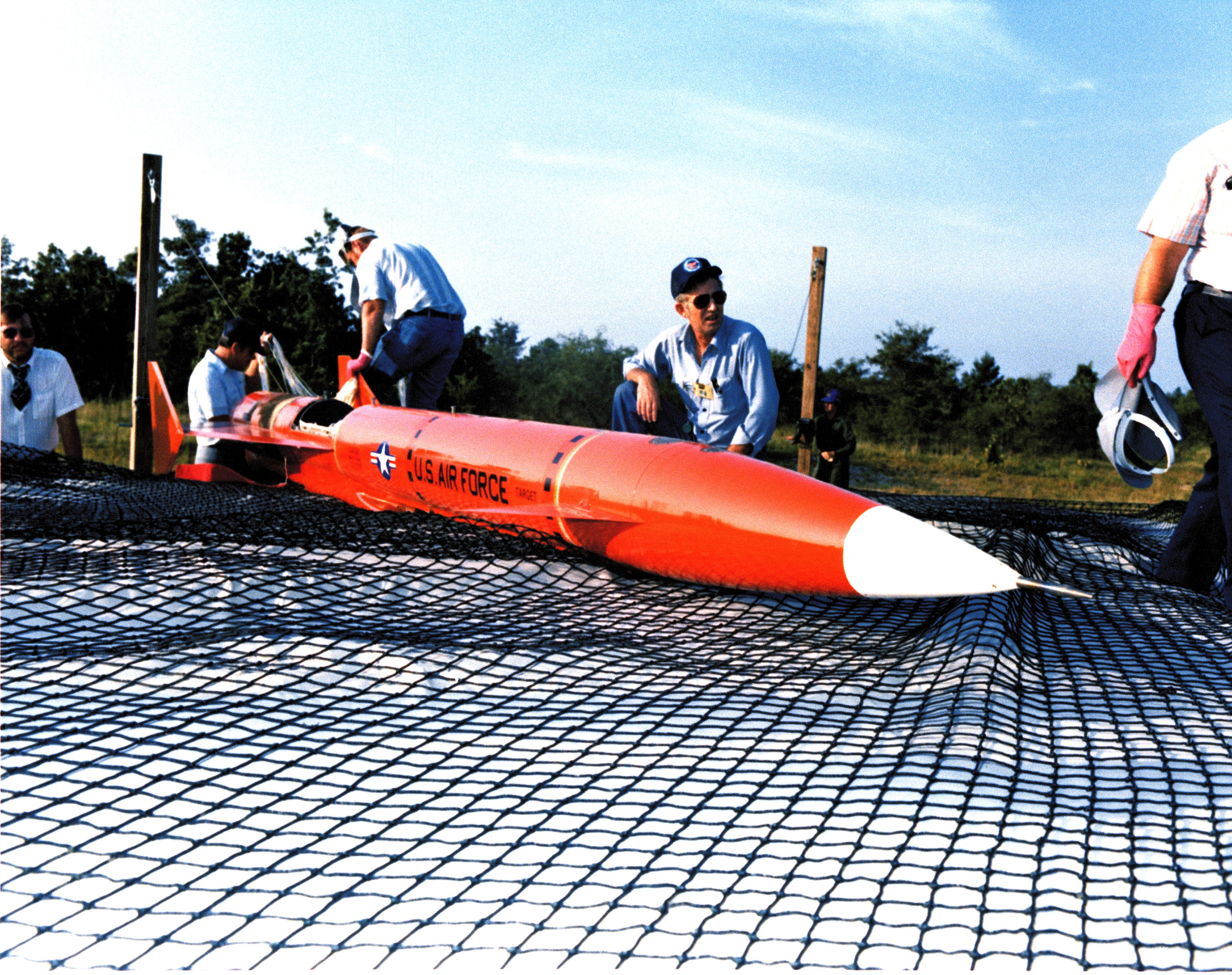 An AQM-81A Firebolt Model 305 high altitude, high speed target (HAHST) drone.Location: EGLIN AIR FORCE BASE, FLORIDA (FL) UNITED STATES OF AMERICA (USA)